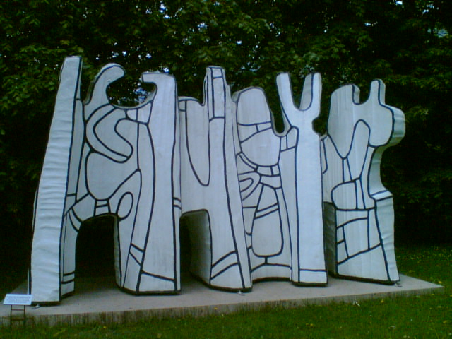 At the Sculpture's Park - Jean Dubuffet- Contoursionistes V